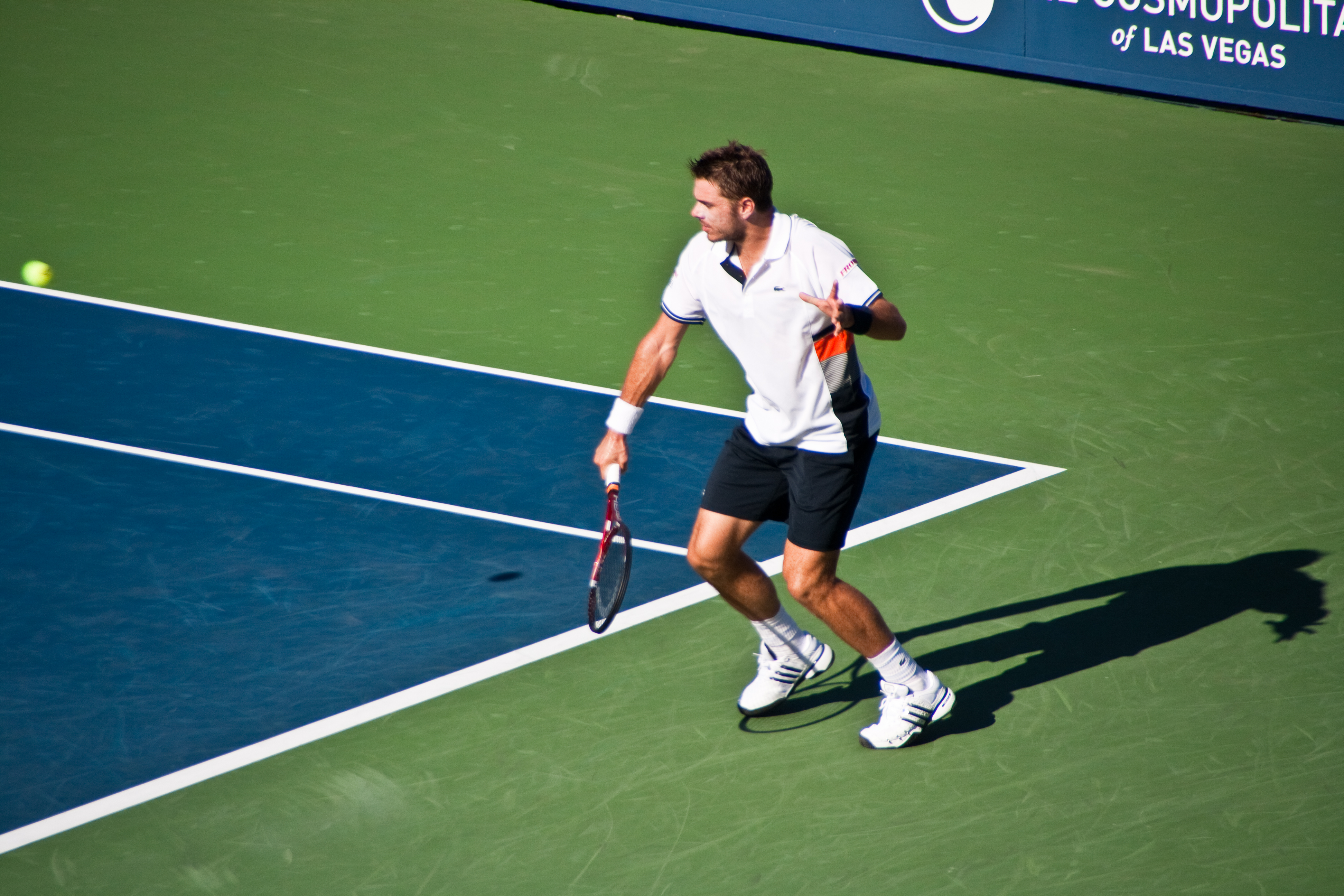 Wawrinka hitting a backhand while playing Andy Murray.